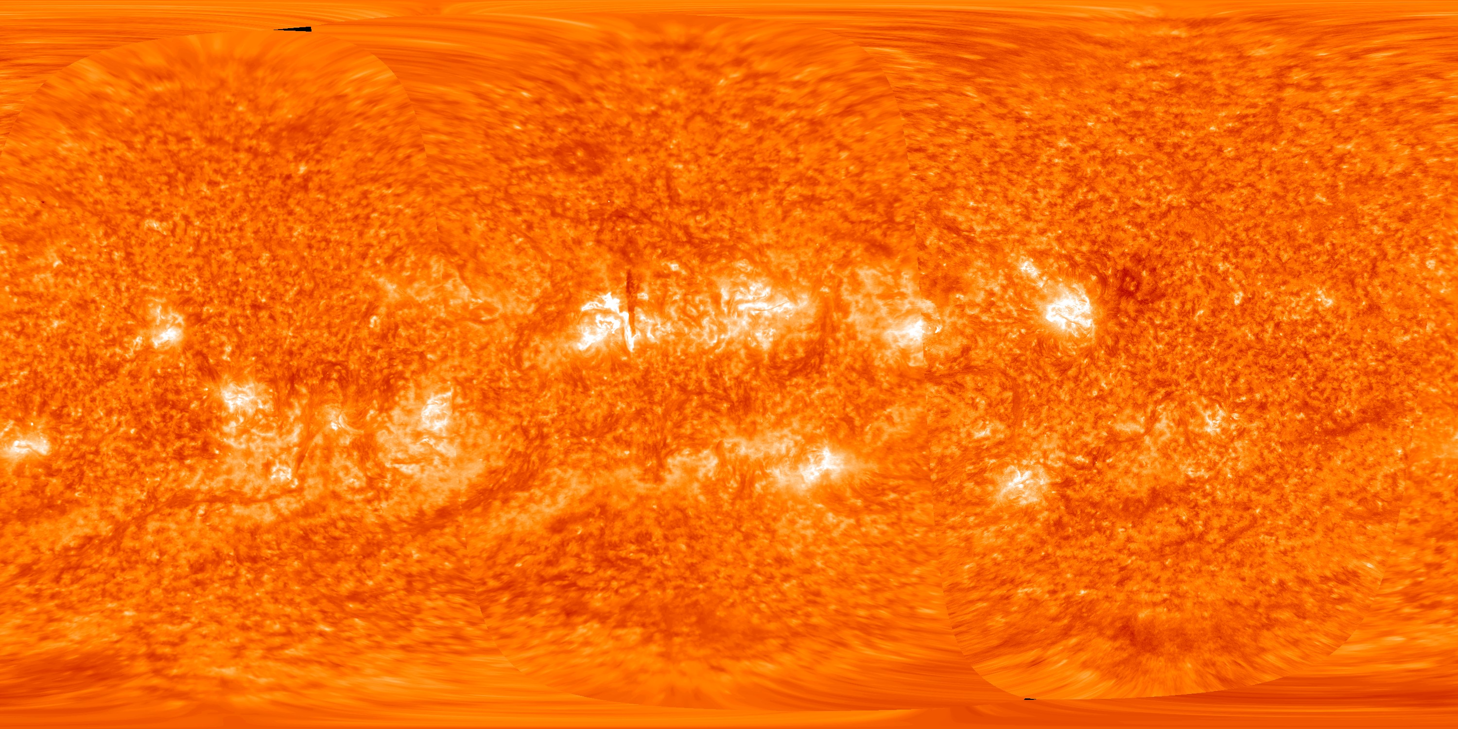 This map of the full sun on 14 October 2012 was created by spacecraft images from, in order from left to right, STEREO-A, STEREO-B and the Solar Dynamics Observatory The dark vertical line near the centre of the picture is an overhead view of a solar prominence (see File:STEREO view of solar prominence on 2012-10-14.jpg for explanation).